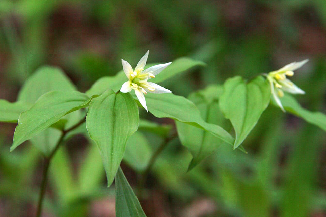 チゴユリ （山梨県甲州市）Disporum smilacinum (Kosyu-city, Yamanashi, JAPAN)